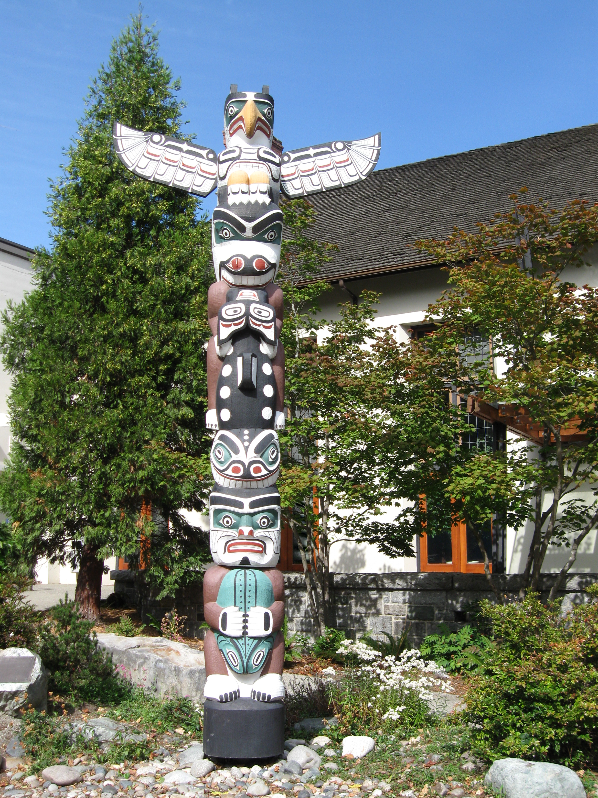 This beautifully decorated and well preserved Totem pole was relocated to UBC campus in Vancouver, Canada within the traditional territory of the Musqueam Indian band and first erected on October 30, 1948 by Eileen and Edward Neel. It was rededicated at Brock Hall in UBC on October 18, 2004.